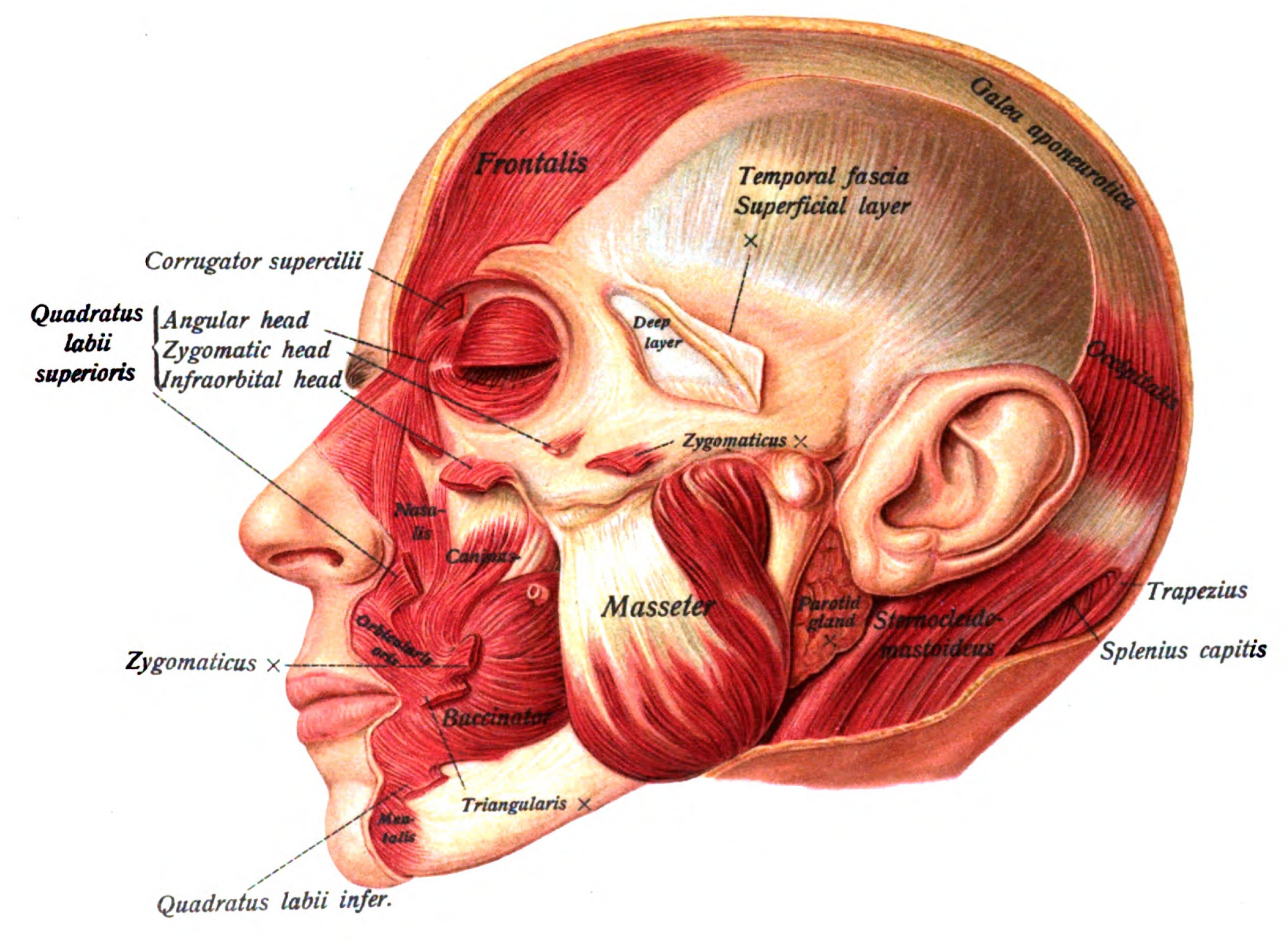 An anatomical illustration from the 1909 American edition of Sobotta's Atlas and Text-book of Human Anatomy with English terminology